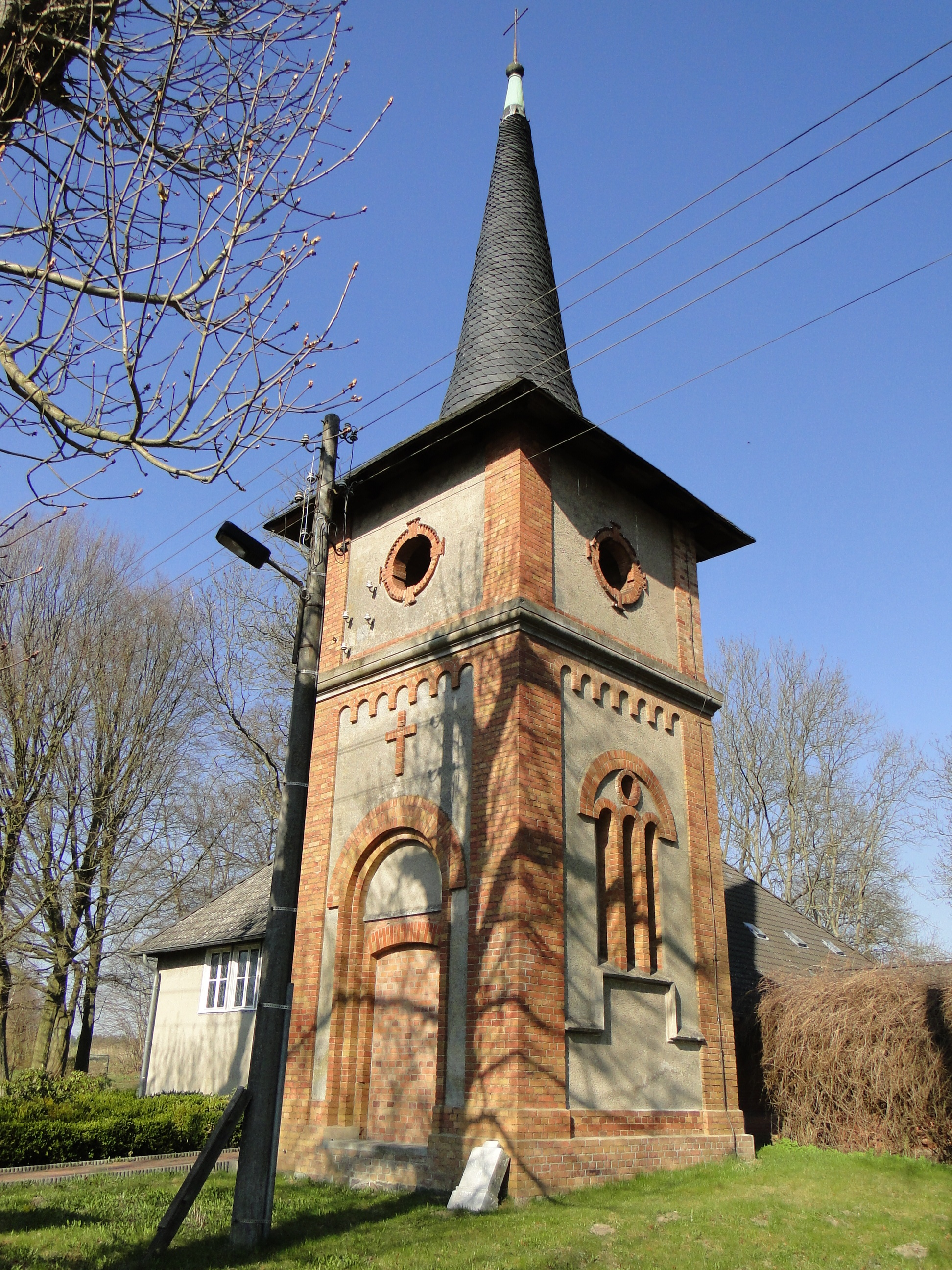 Church in Schillersdorf, disctrict Mecklenburg-Strelitz, Mecklenburg-Vorpommern, Germany